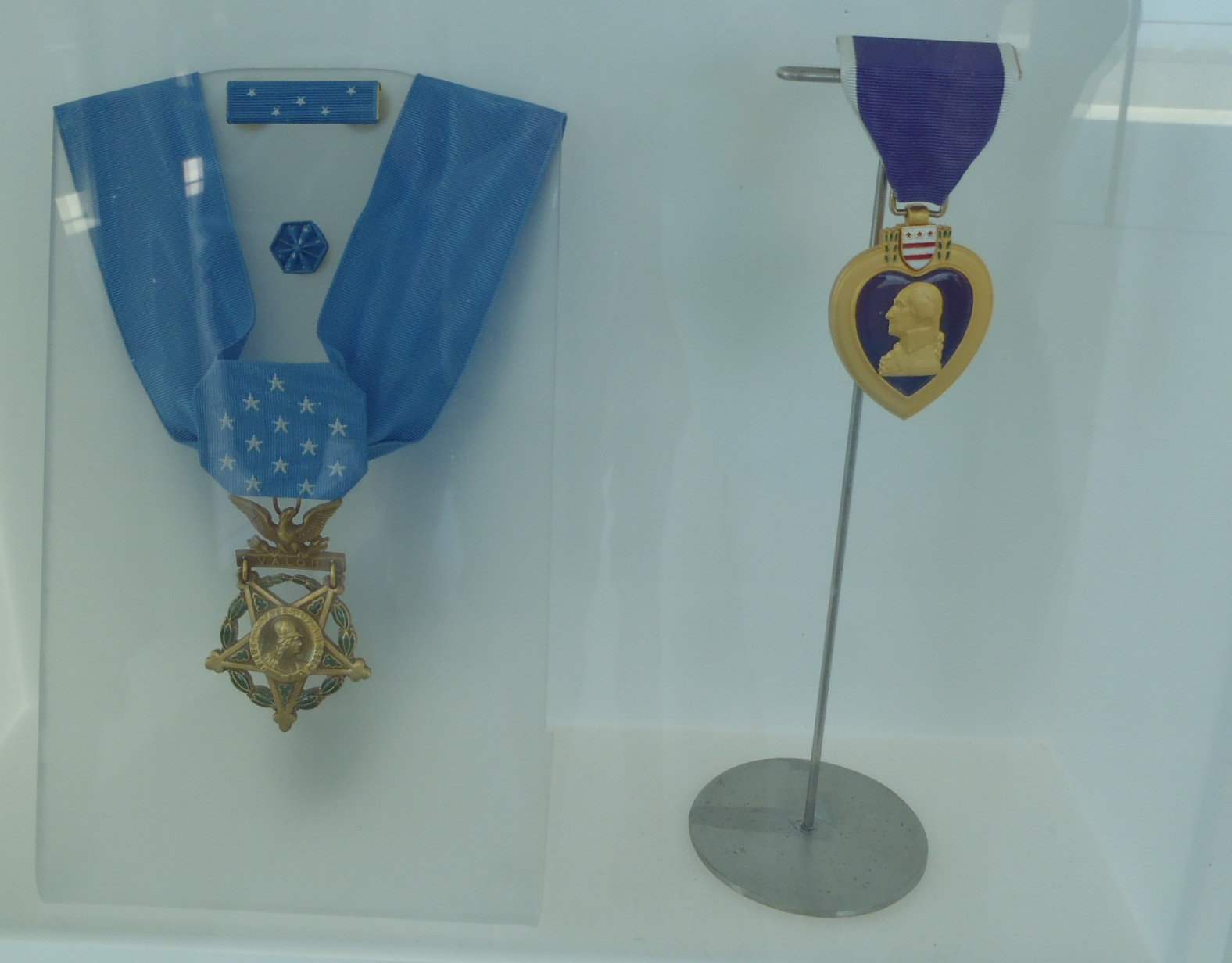 Frank D. Peregorys' medals displayed at the Colleville U.S. military cemetery, Omaha beach Normandy, France.